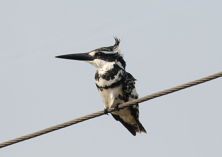 Ceryle rudis (Pied Kingfisher), male, Dadri Wetlands, UP, India